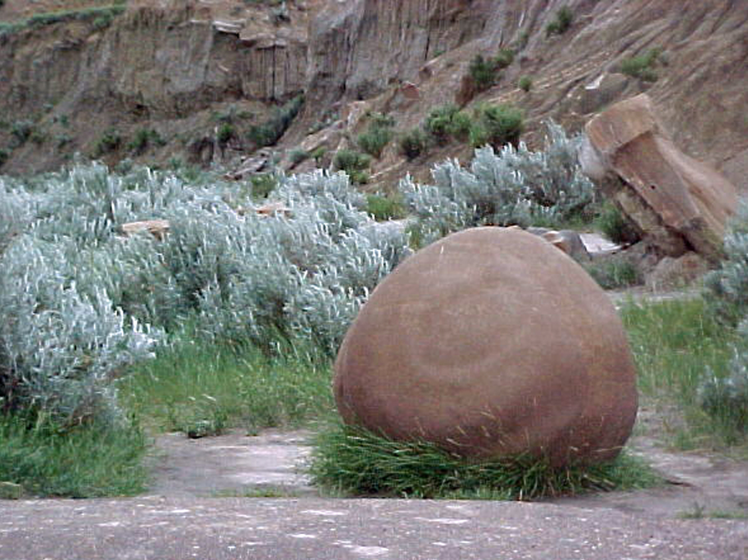 Concretion rock formation — in Theodore Roosevelt National Park, North Dakota. This boulder is known as a "concretion". The concretions are formed within sedementary rocks such as shale or sandstone. They form as minerals are deposited around a core. As the surrounding rocks erode, the "cannon balls" become exposed.